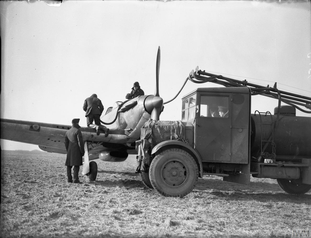 Royal Air Force- France 1939-1940. A Hawker Hurricane Mark I of No. 87 Squadron RAF undergoes refuelling from a tender at Lille-Seclin. Comment : Note original two-bladed propeller.